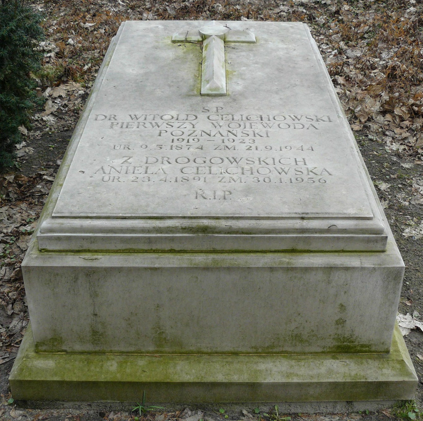 Witold Celichowski Tomb, Poznan.